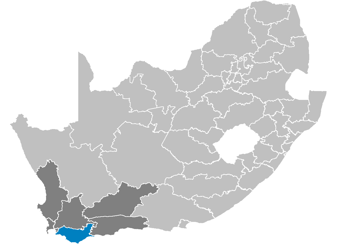 Map showing the Overberg District Municipality higlighted within the Western Cape.